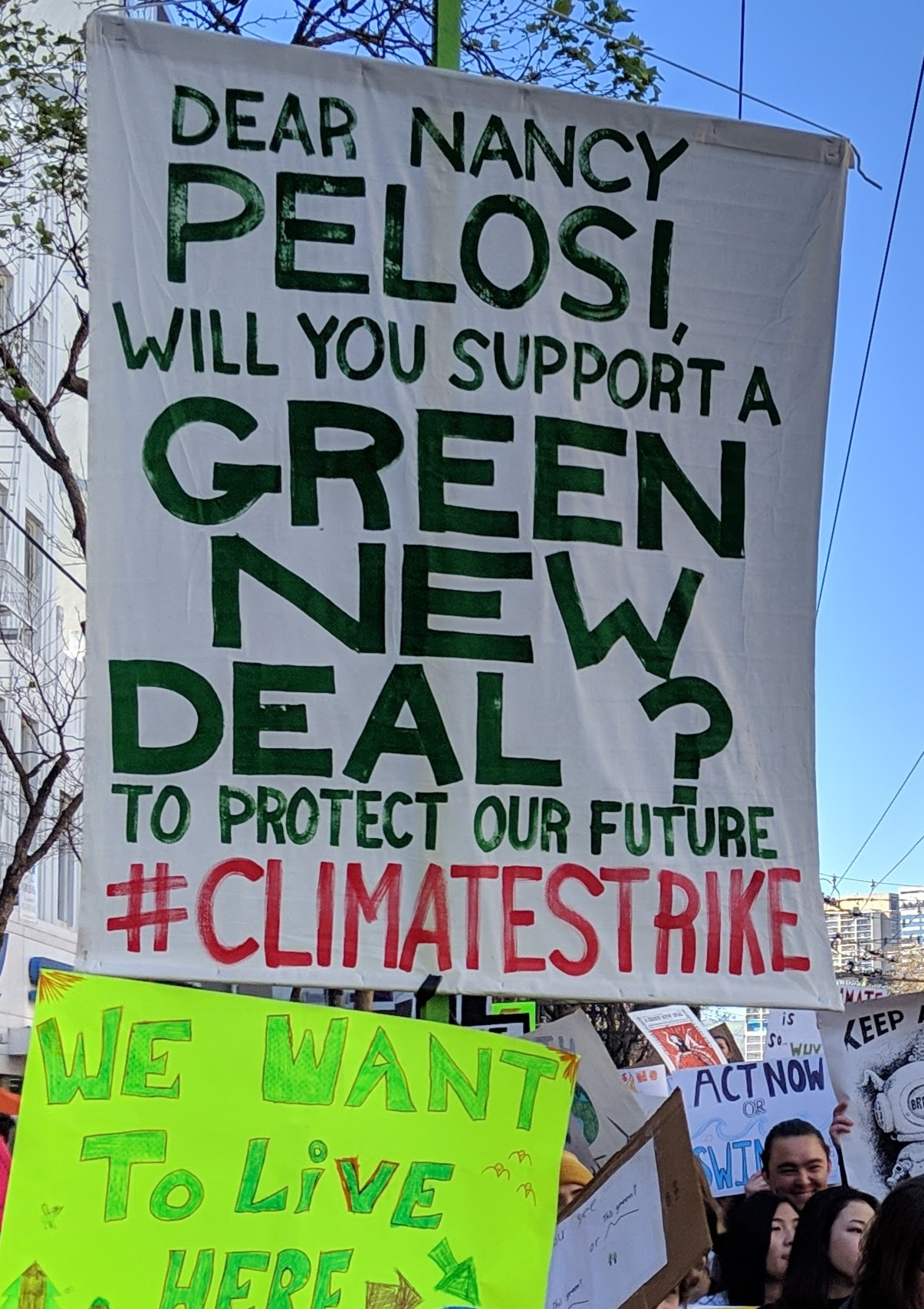 Banner "Dear Nancy Pelosi, will you support a Green New Deal to protect our future?", at the San Francisco Youth Climate Strike, on 15 March 2019.